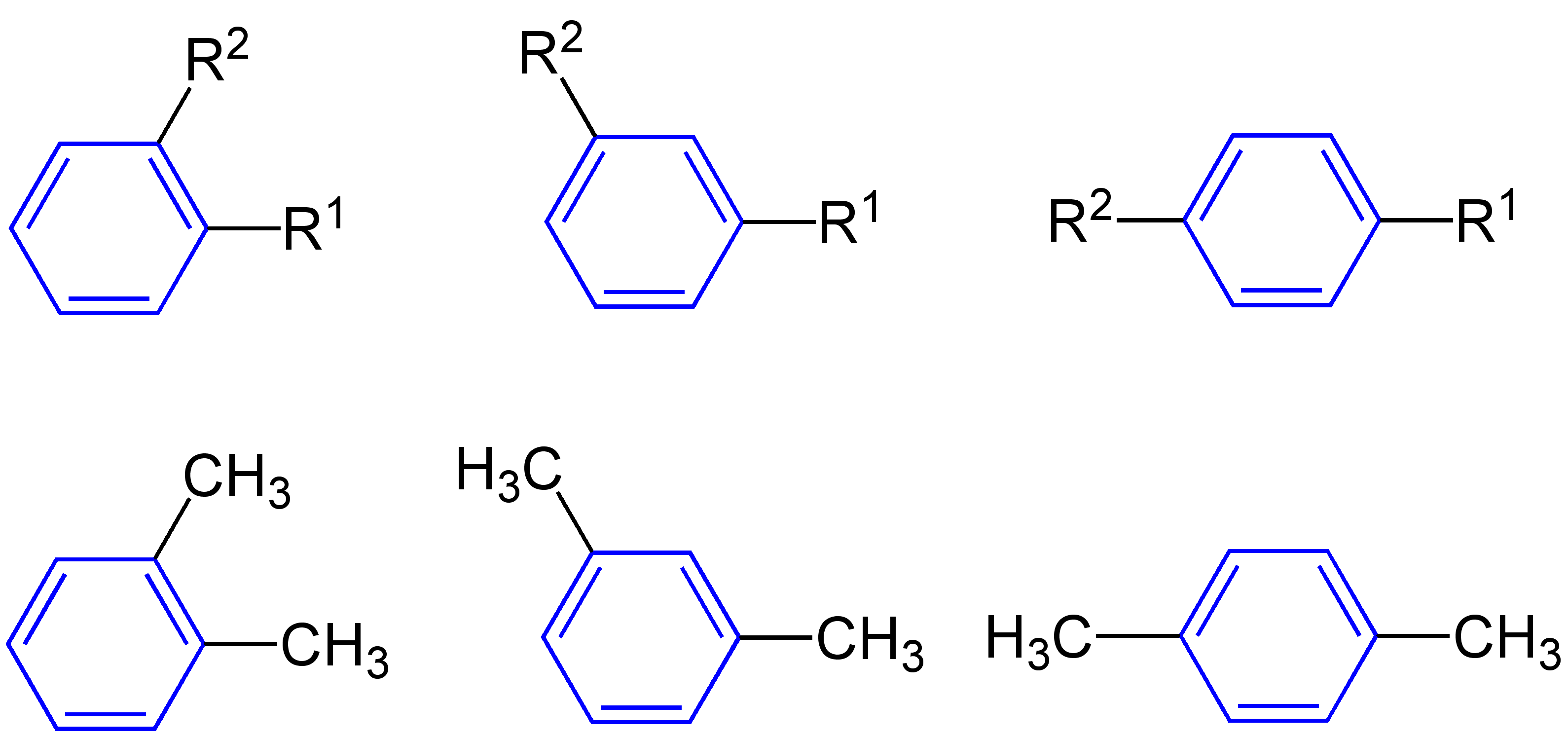 Phenylene_Group_General_Formulae